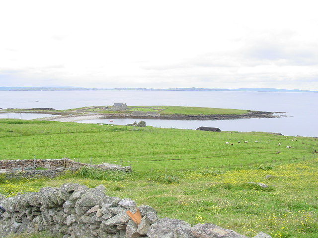 Kirk Ness, Whalsay. The church at Kirk Ness is located on a small island linked by a causeway to Whalsay. The Shetland Mainland is in the background.